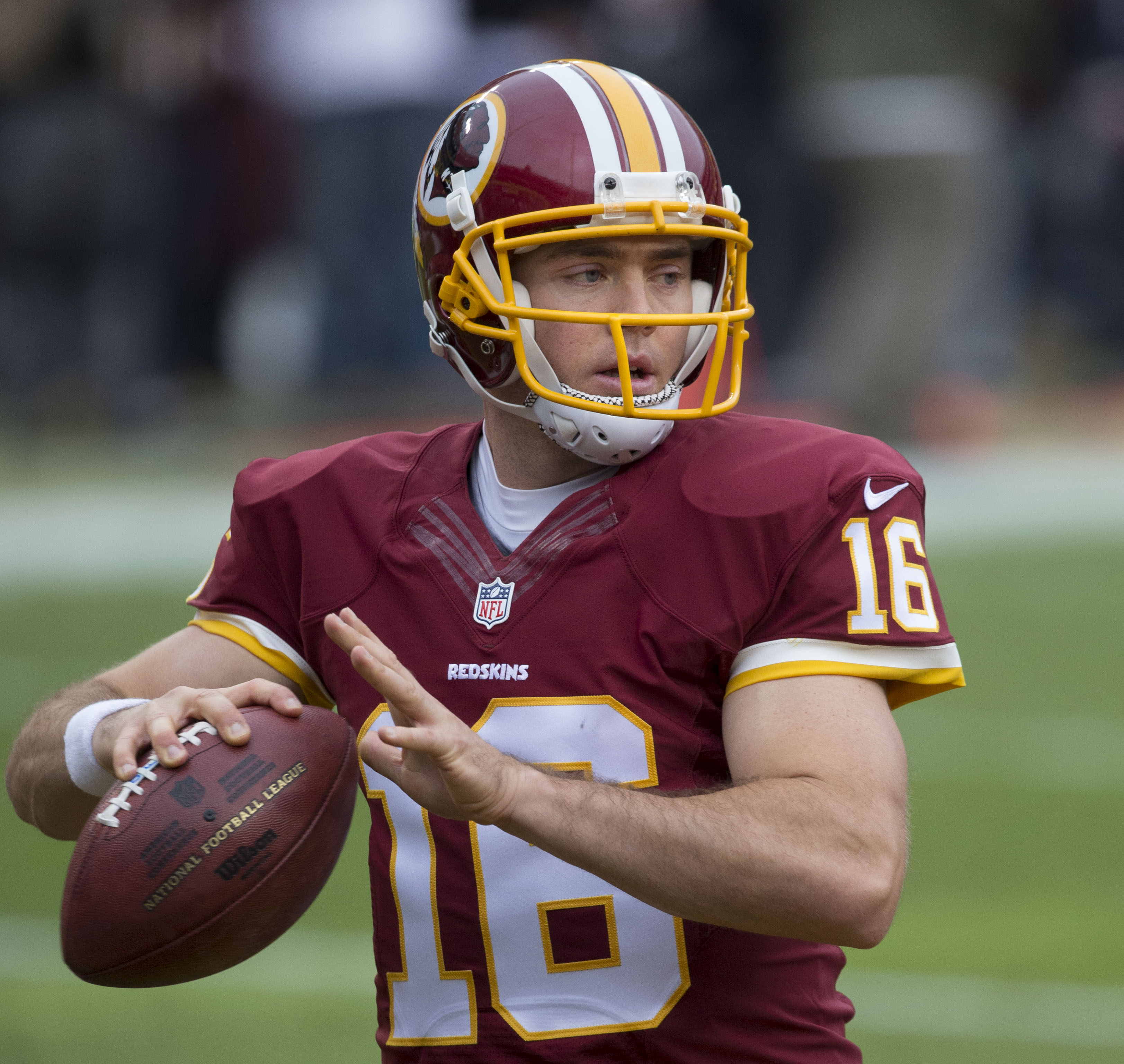 Buccaneers at Redskins 11/16/14